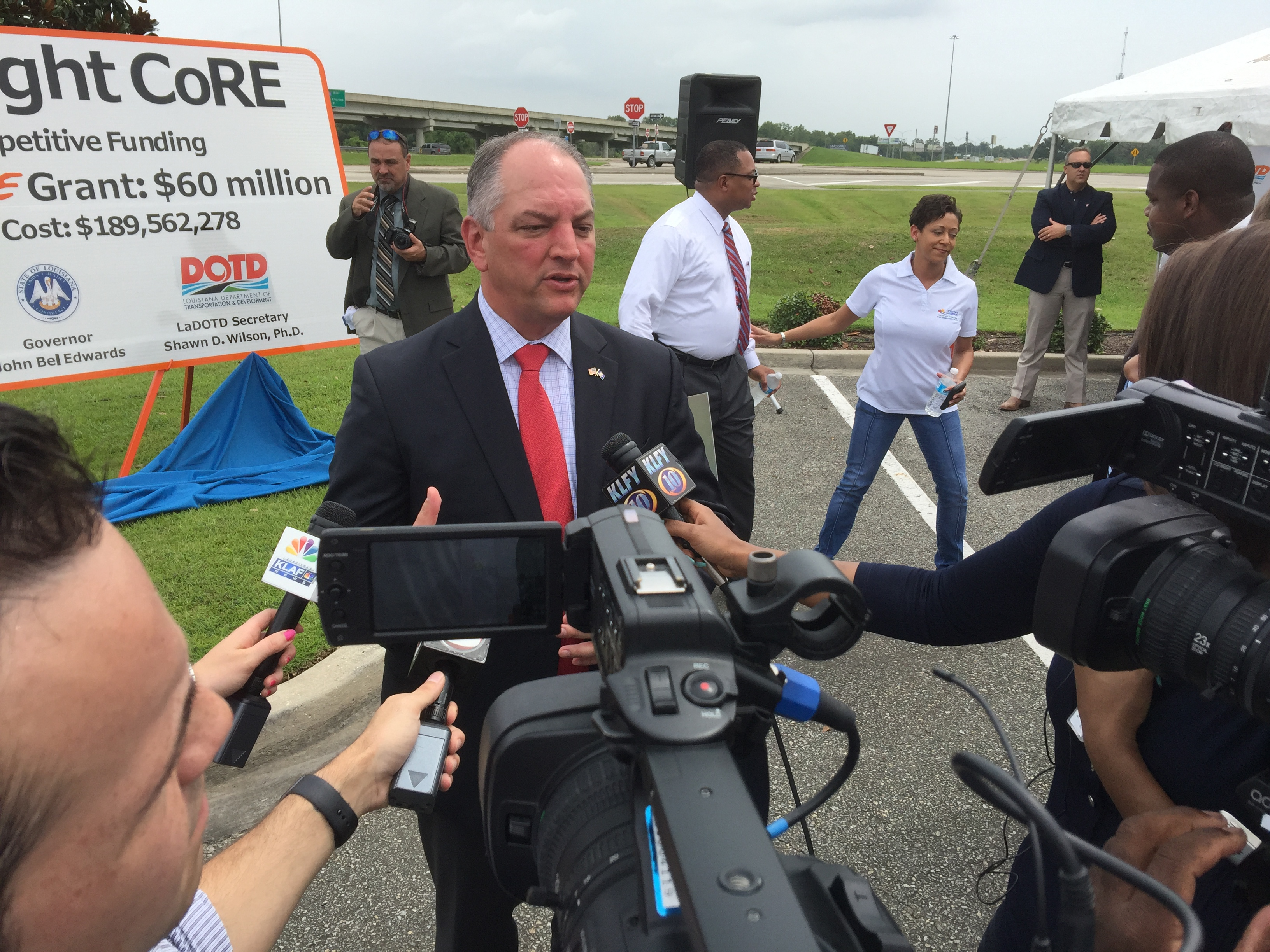 Louisiana Governor John Bel Edwards speaking to the media in Lafayette, Louisiana, on August 3, 2016